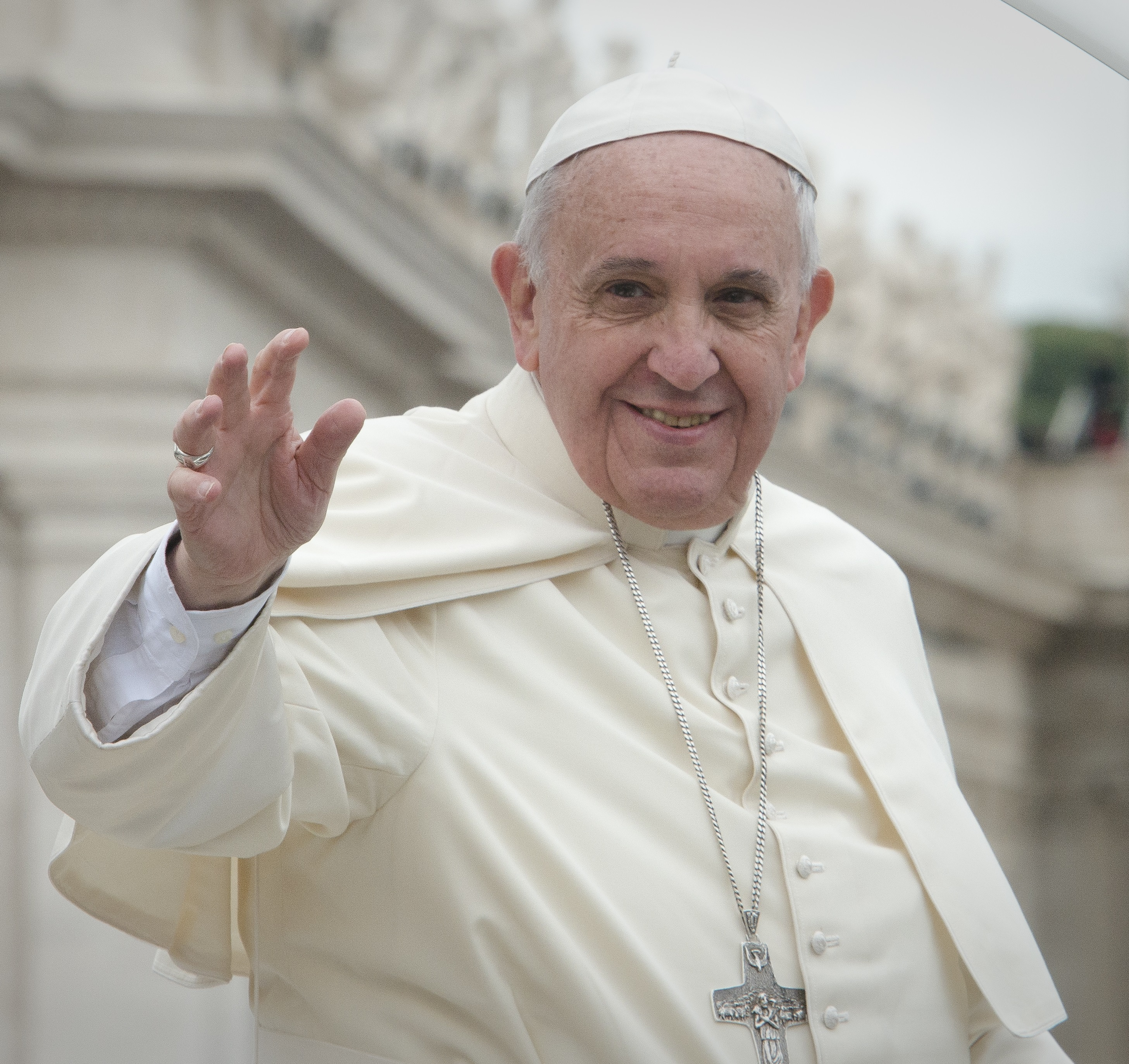 ROME,VATICAN 27 APRIL: "Images taken from what will go down in history as one of the largest and most important days in current history. The Canonization of Blessed Pope John XXIII and Blessed Pope John Paul II. Two beloved Popes from the 20th Century."